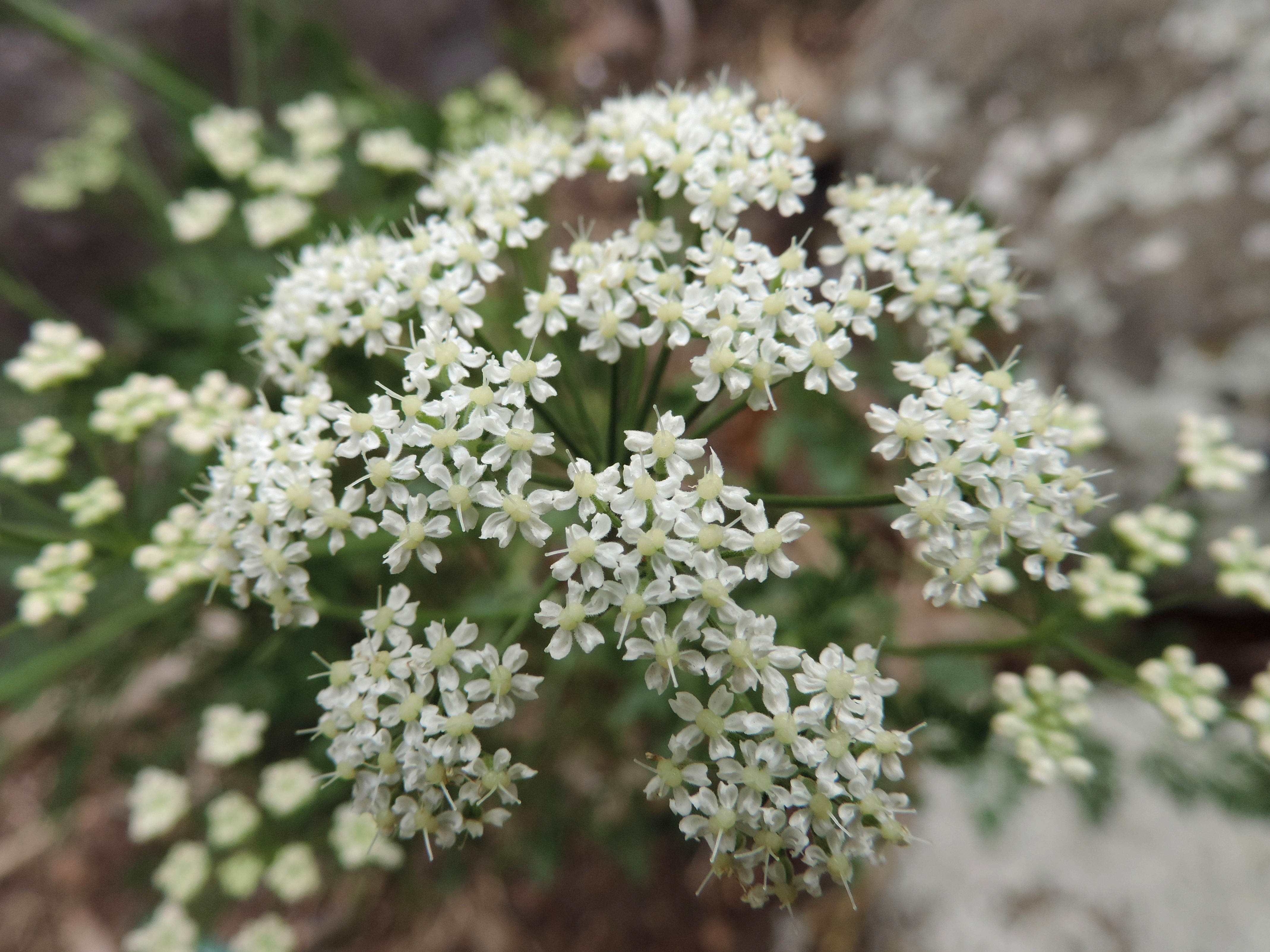 Pimpinella junoniae in Jardín Botánico Canario Viera y Clavijo